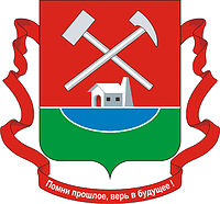 Coat of Arms of Gay, Russia from [1]